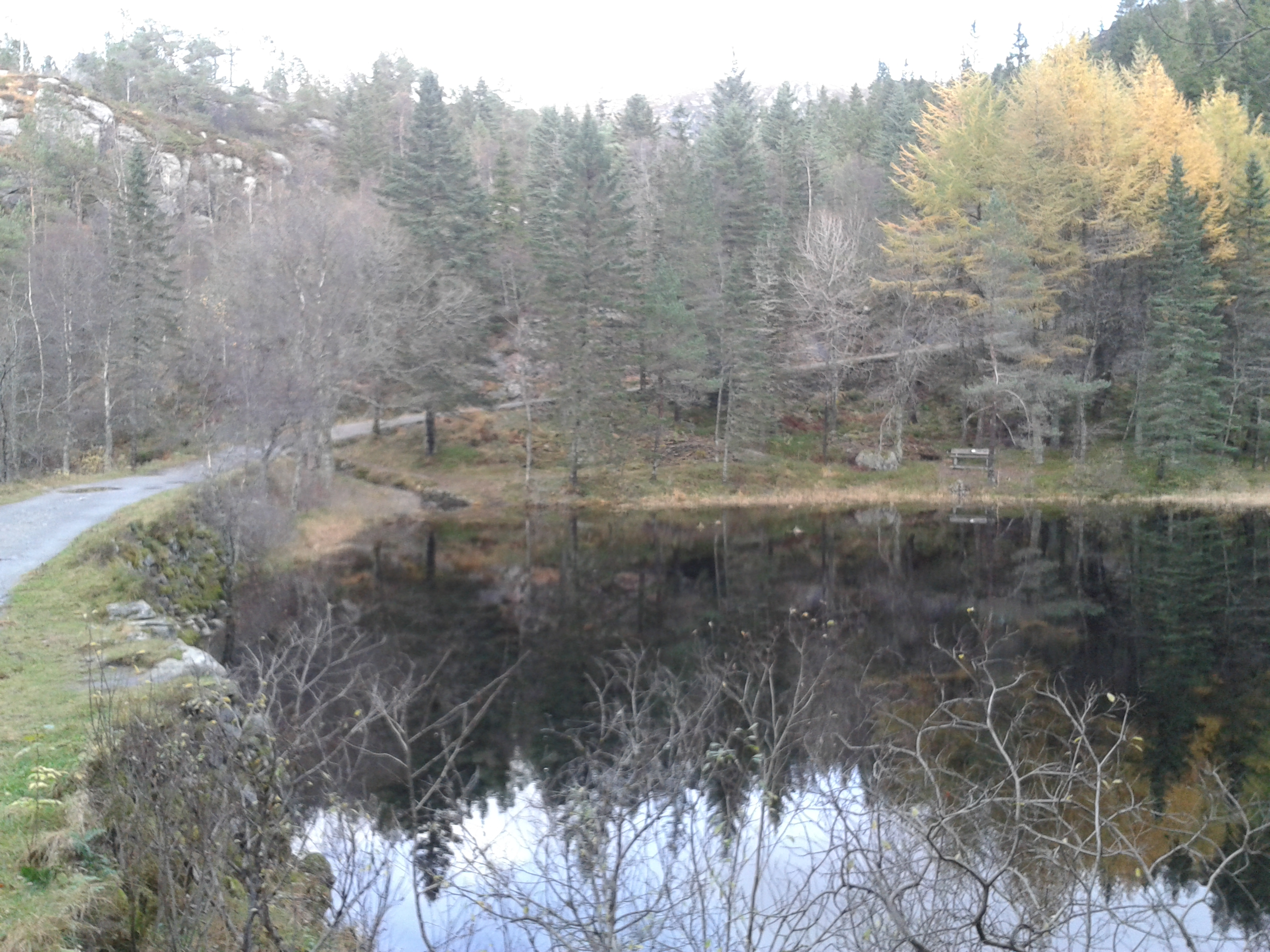 Nedrediket, a lake in the Bergen mountain Fløyen, and the source of the river Mulelven